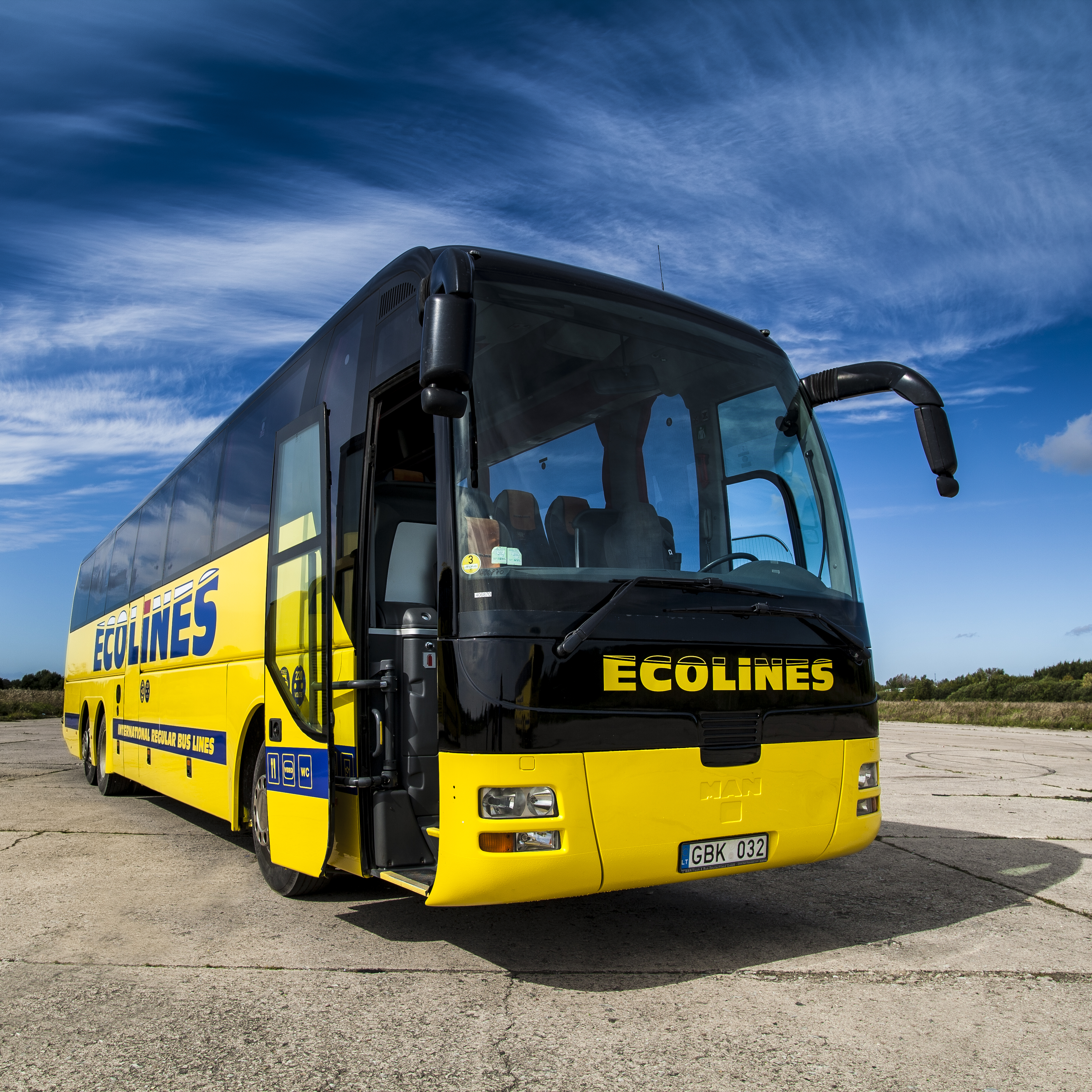 Ecolines bus